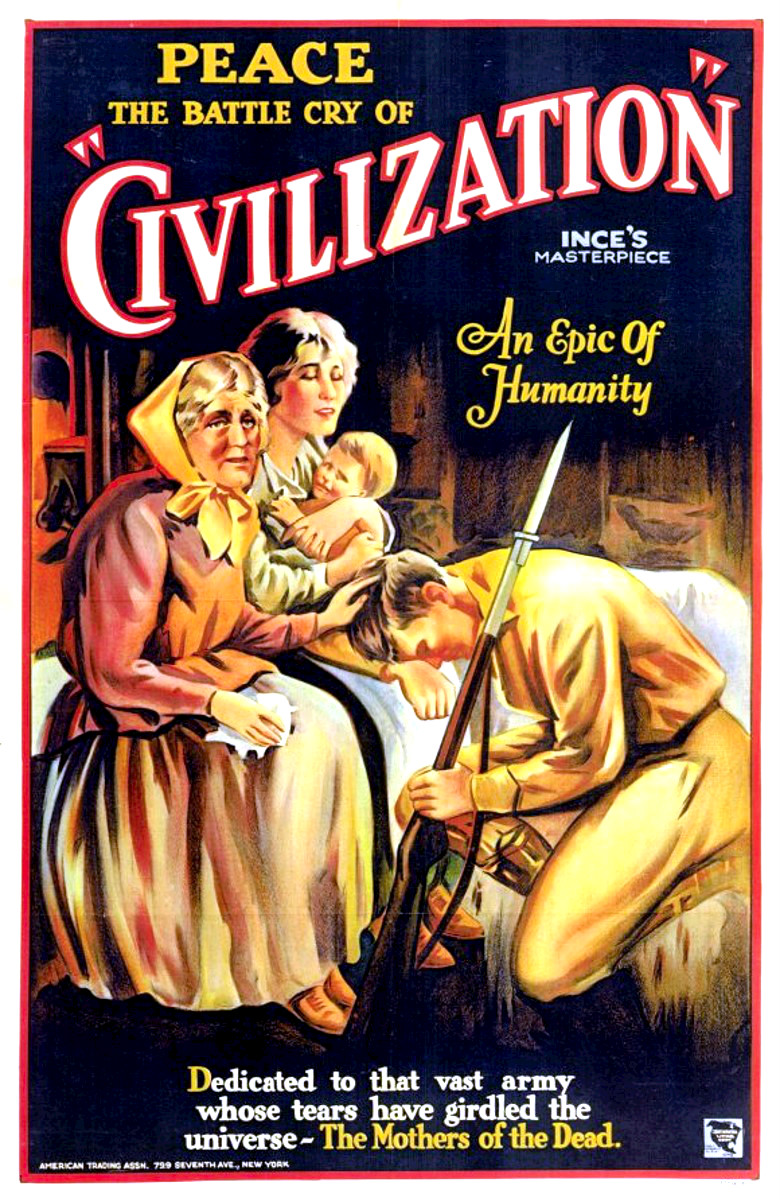 Movie poster for Civilization